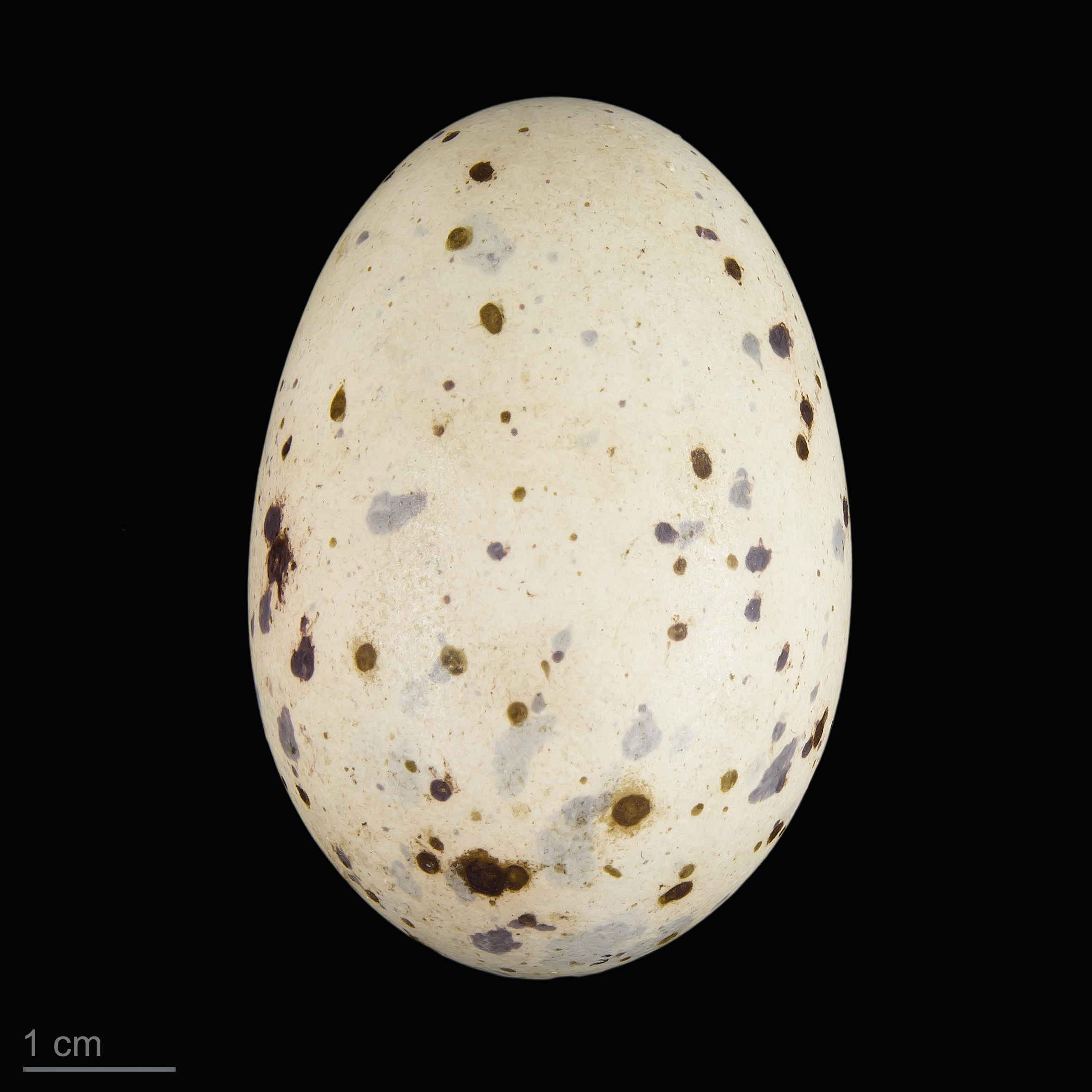 Eggs of western swamphen collection of Jacques Perrin de Brichambaut.